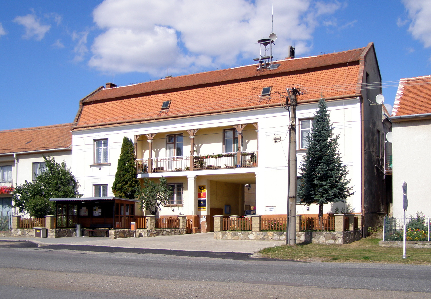 Radkovice village. Mayor's house, post office